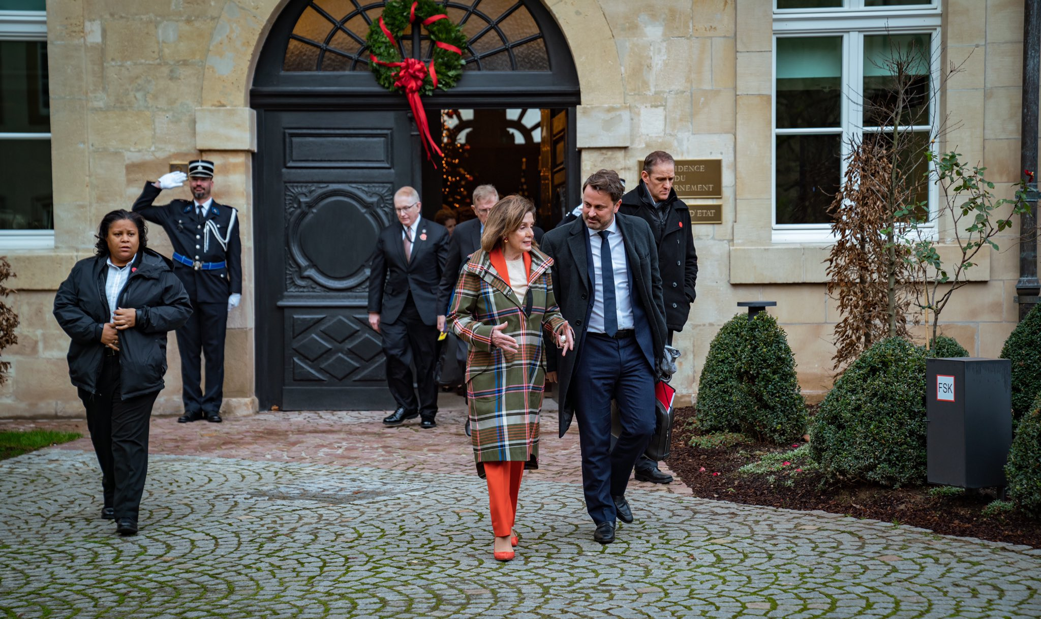 Our bipartisan delegation engaged in extensive discussions w/ PM @Xavier_Bettel, Speaker Fernand Etgen & other senior Luxembourg parliamentarians focused on security, economy & governance.